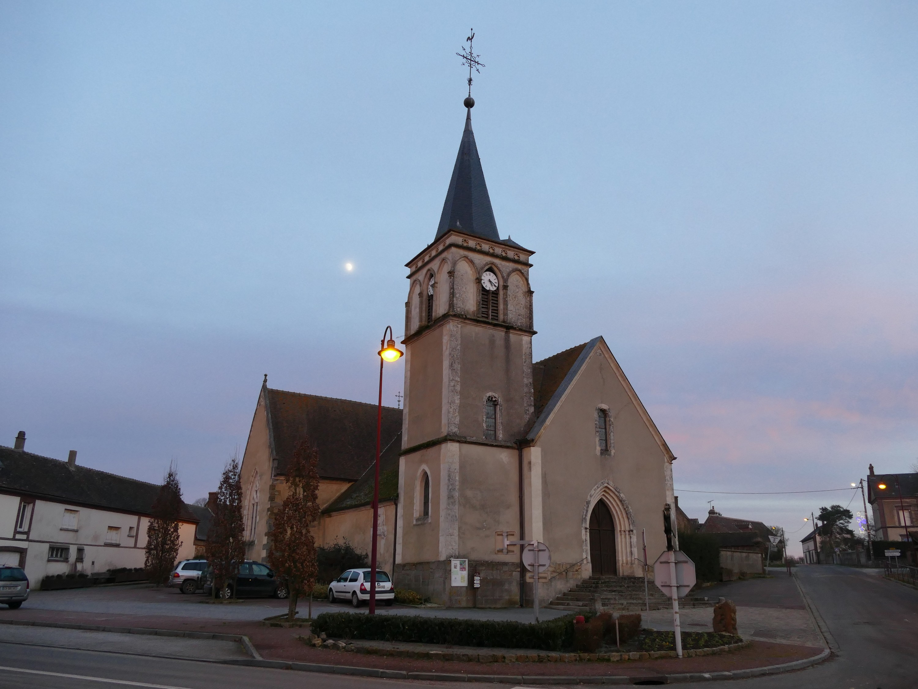 Saint-Maurice's church in Saint-Maurice-lès-Charencey (Orne, Normandie, France).